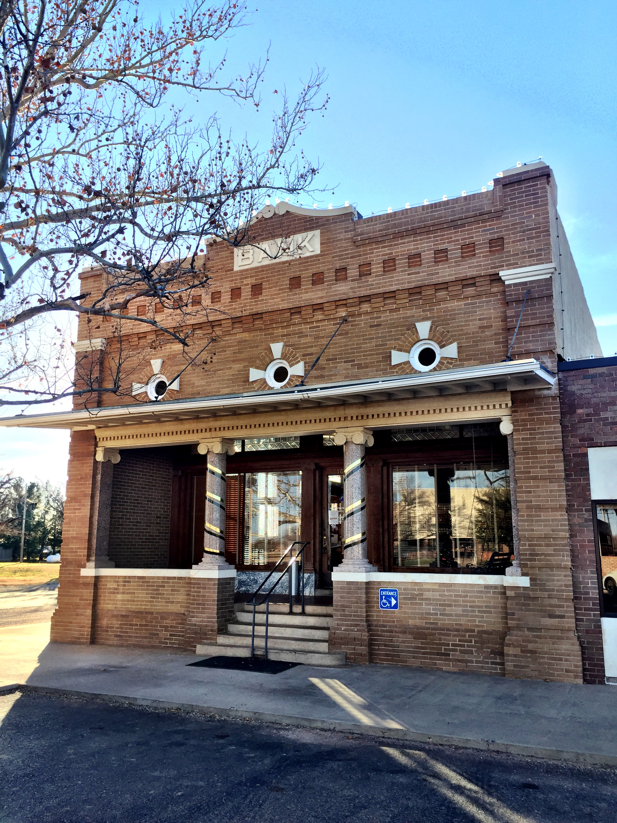 First National Bank Building Jayton Texas 402 Donoho Street, Jayton Tx